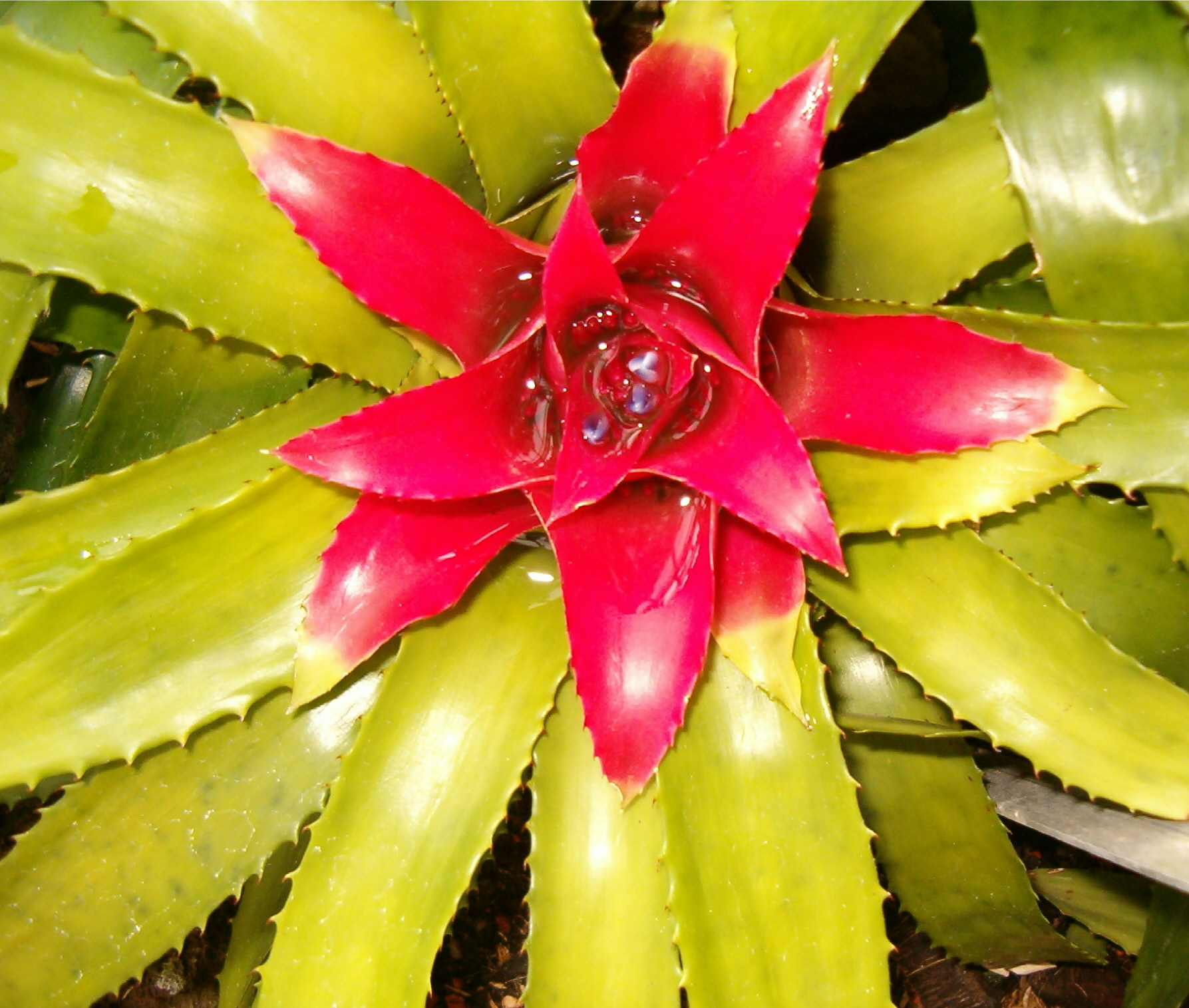 Habitus and Inflorescence Location: Botanical Gardens Berlin